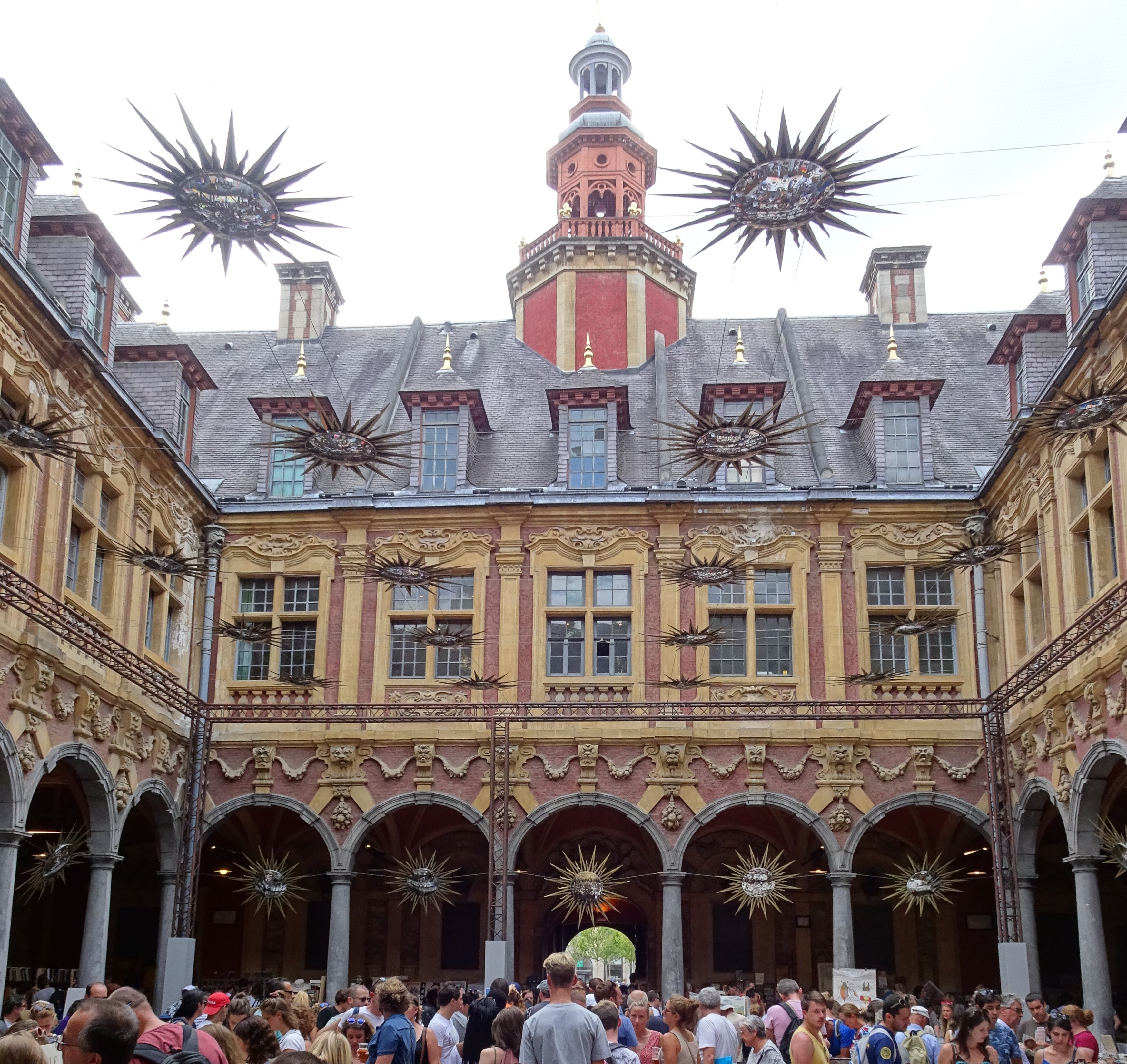 Jumble sale (braderie) 2019 Interior courtyard of Old Lille Stock Exchange (Fr) .